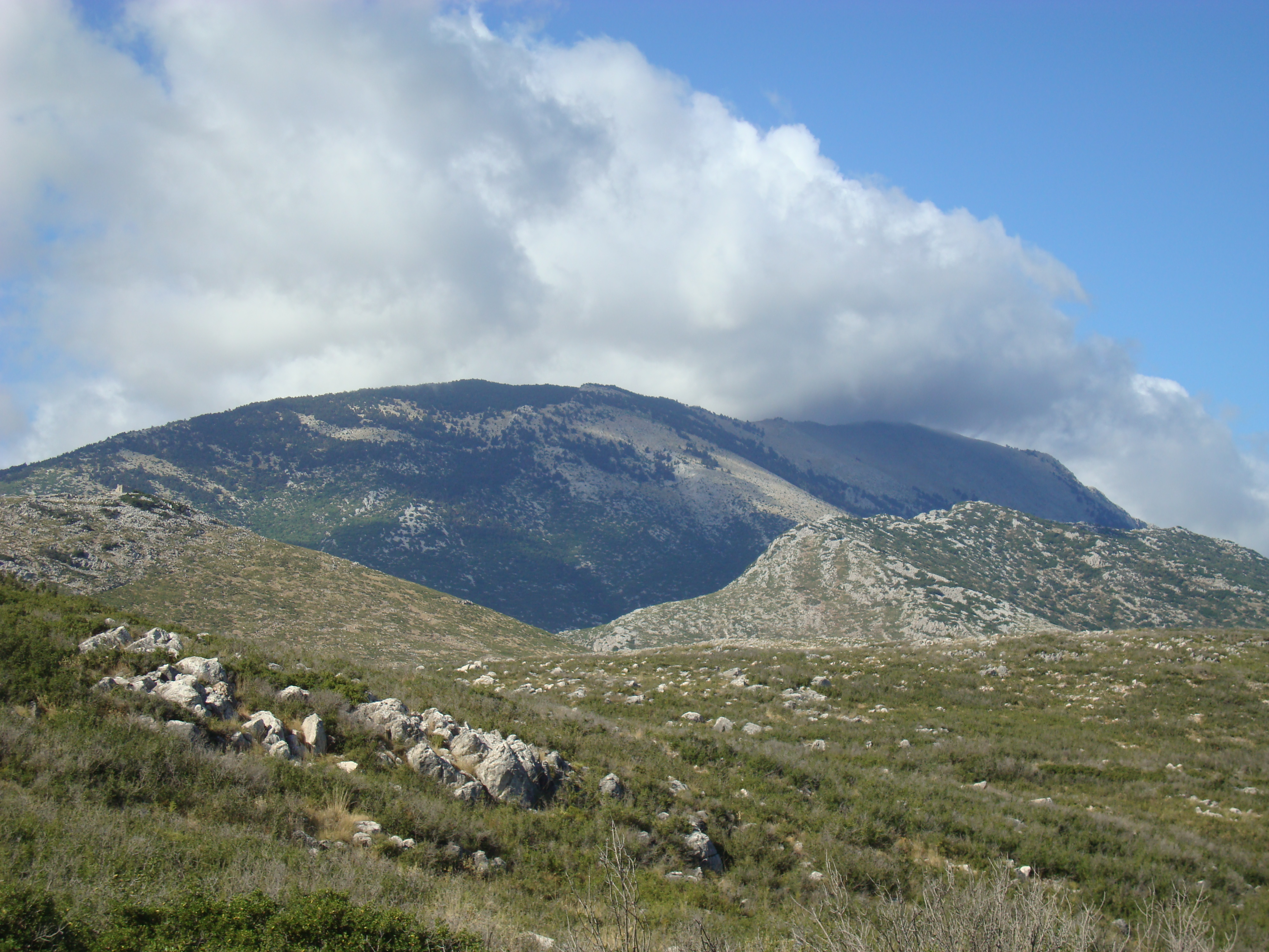 Mt.Zagarás (Ancient "Helikon"), 1526m